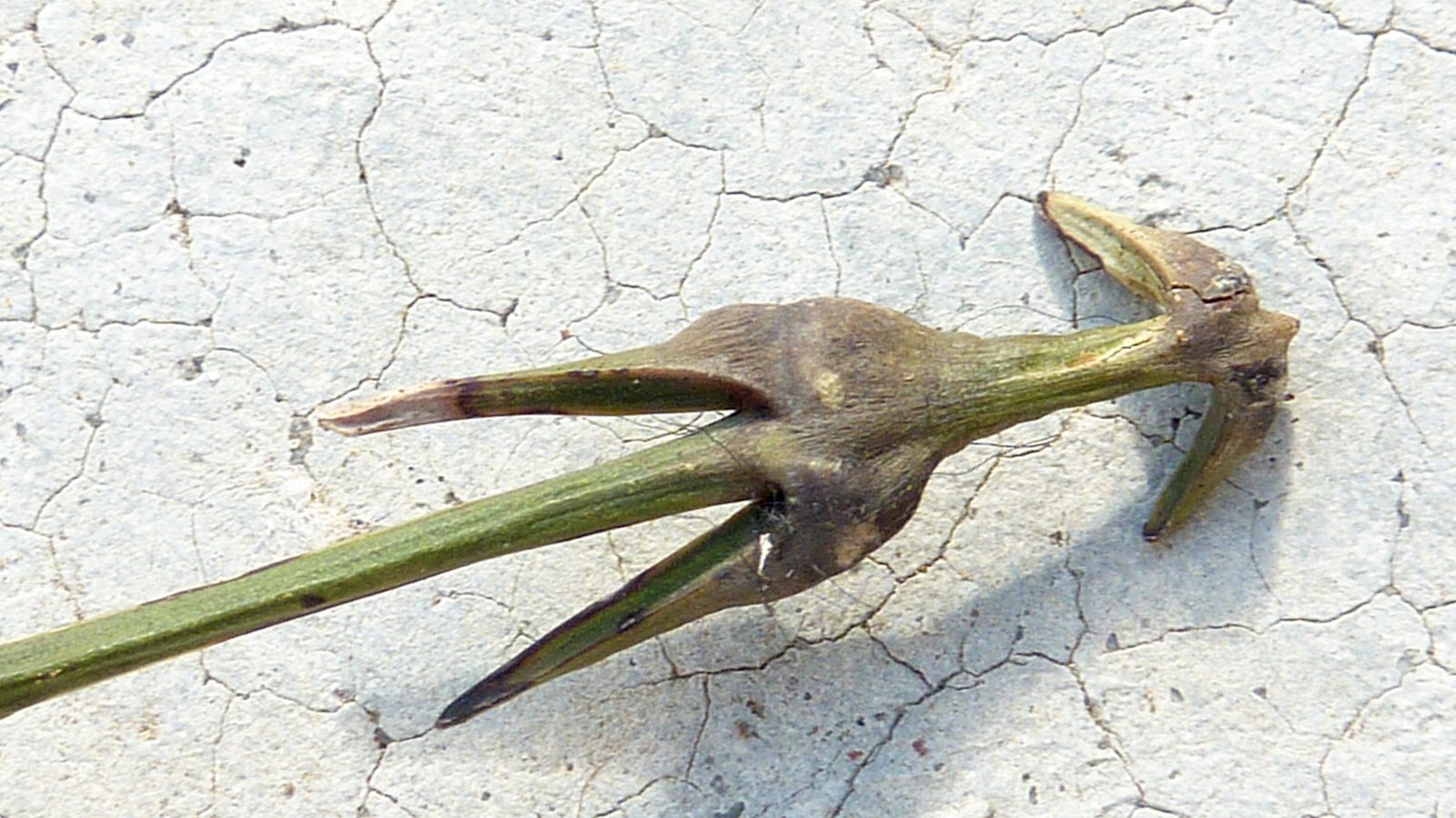 Desmoncus orthacanthos Mart.